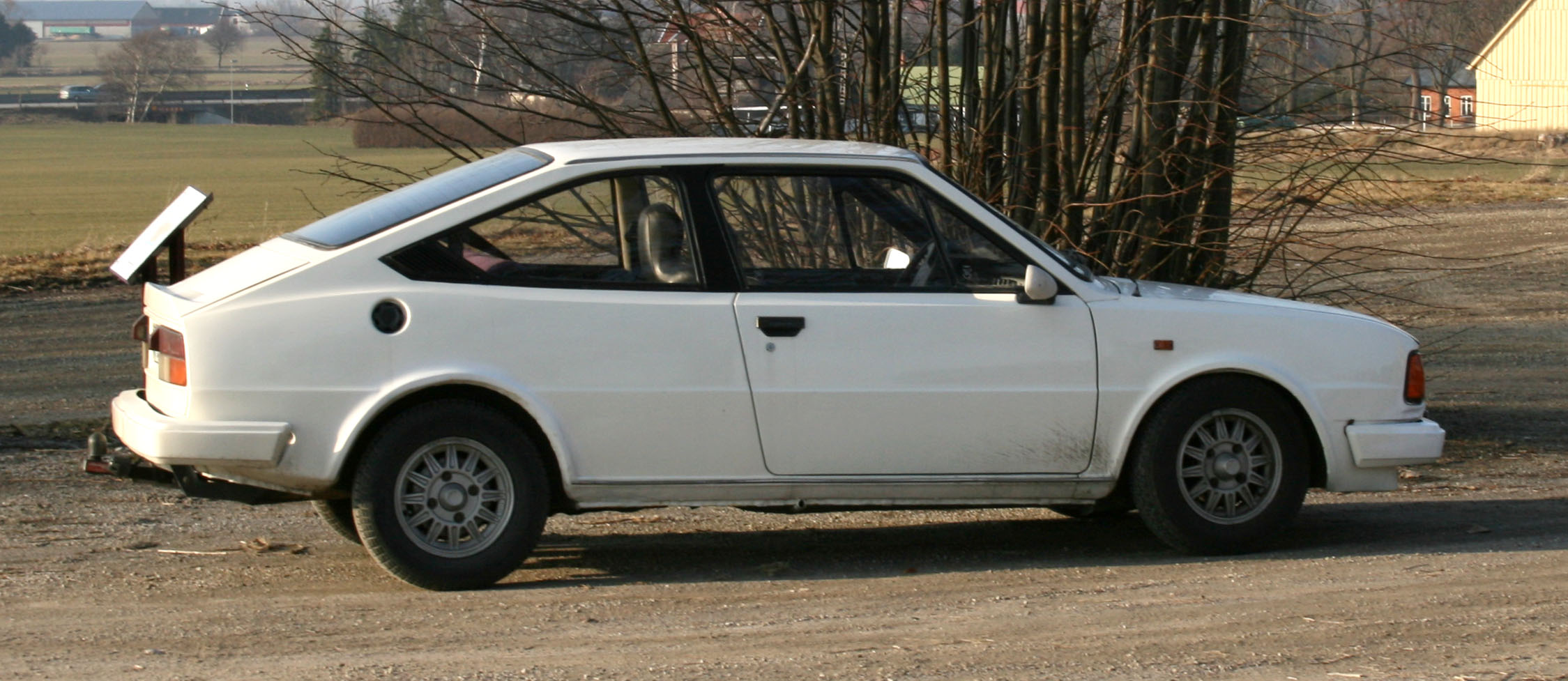 1985 Škoda Rapid 130